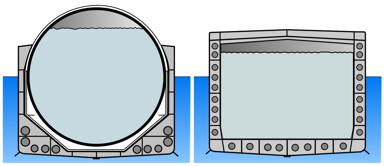 LNG tanker 2types (front view) No text